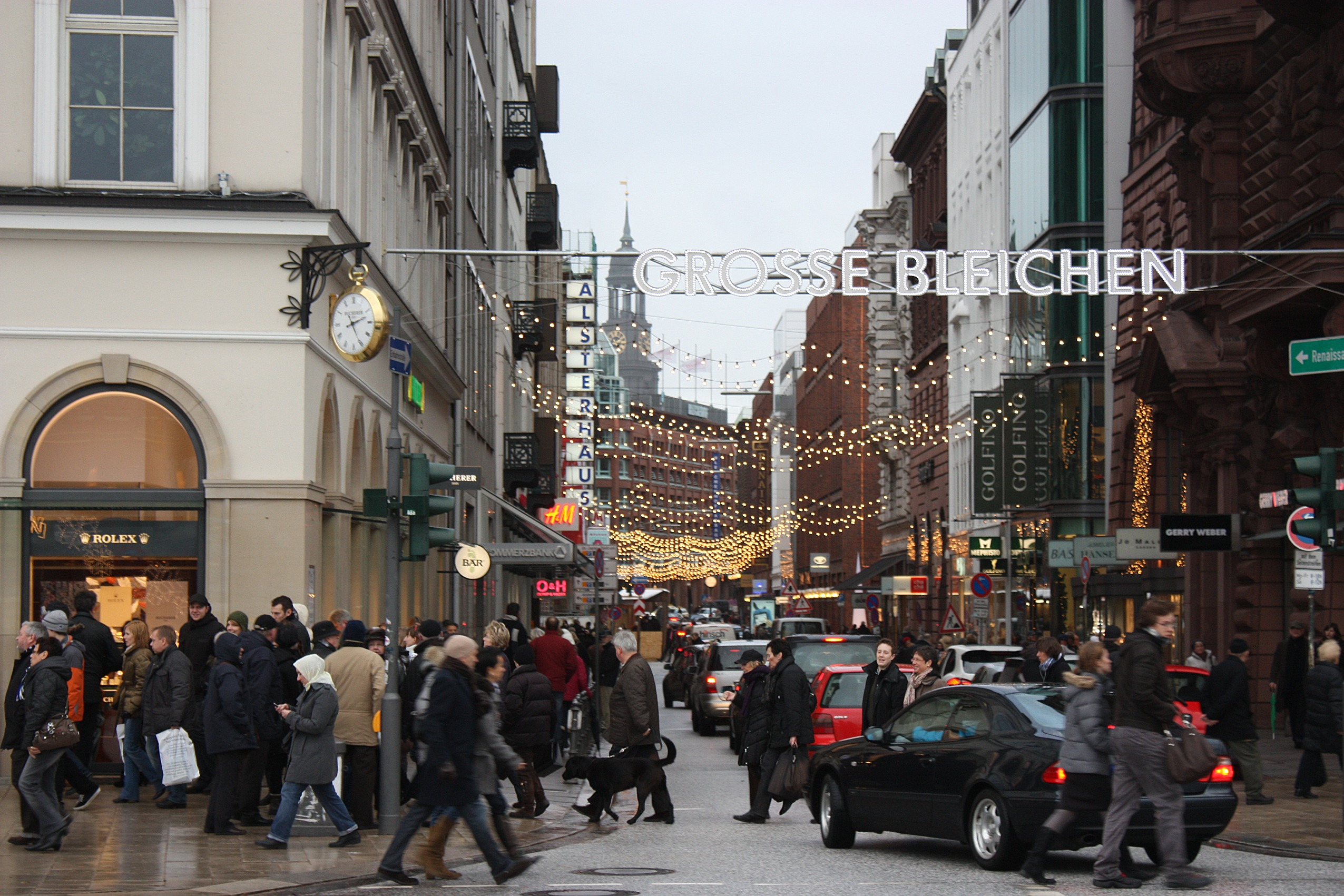 Hamburg, at the head of the Große Bleichen